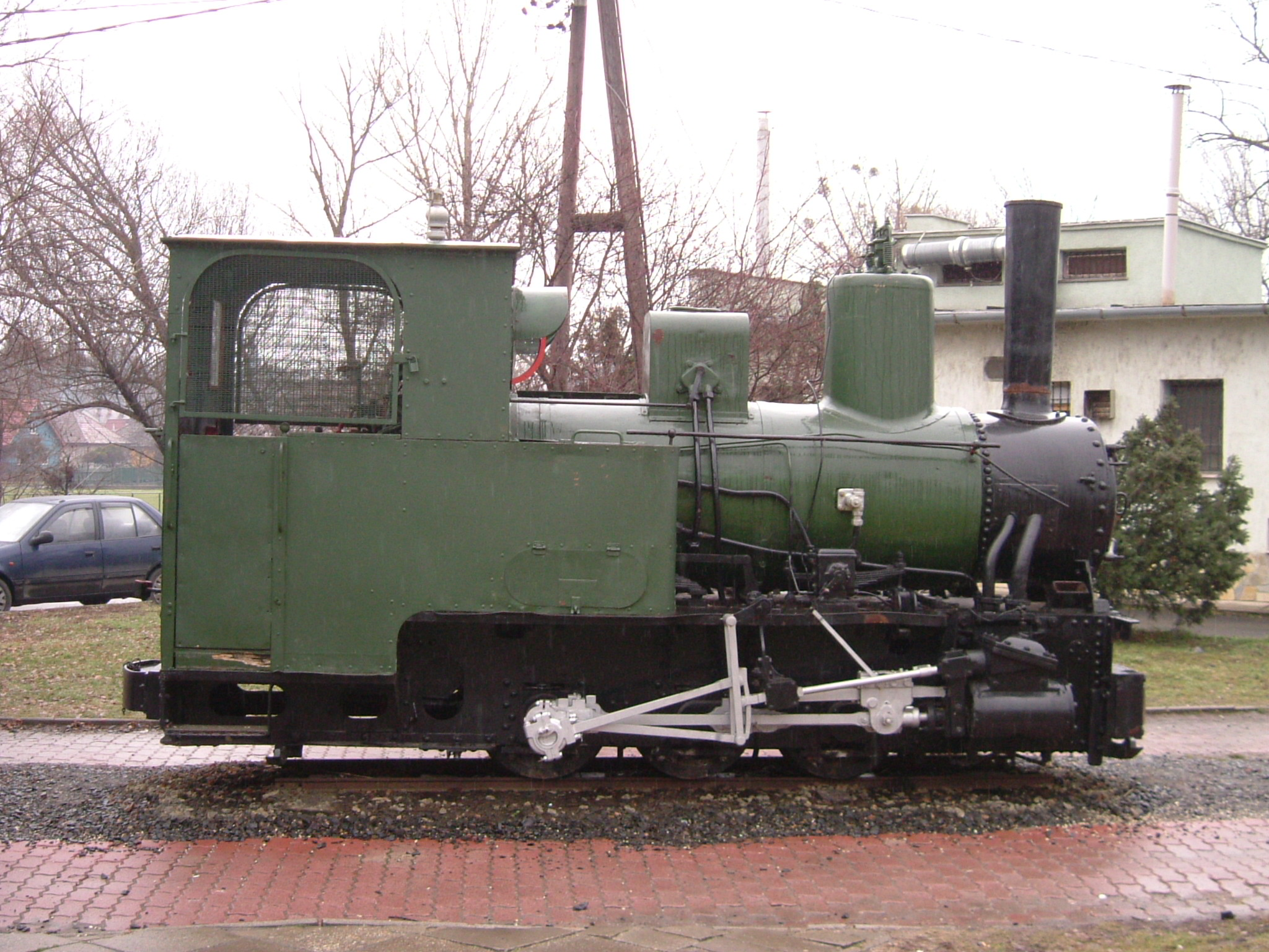 Old steam locomorive of the Kismaros narrow-gauge railway, Hungary